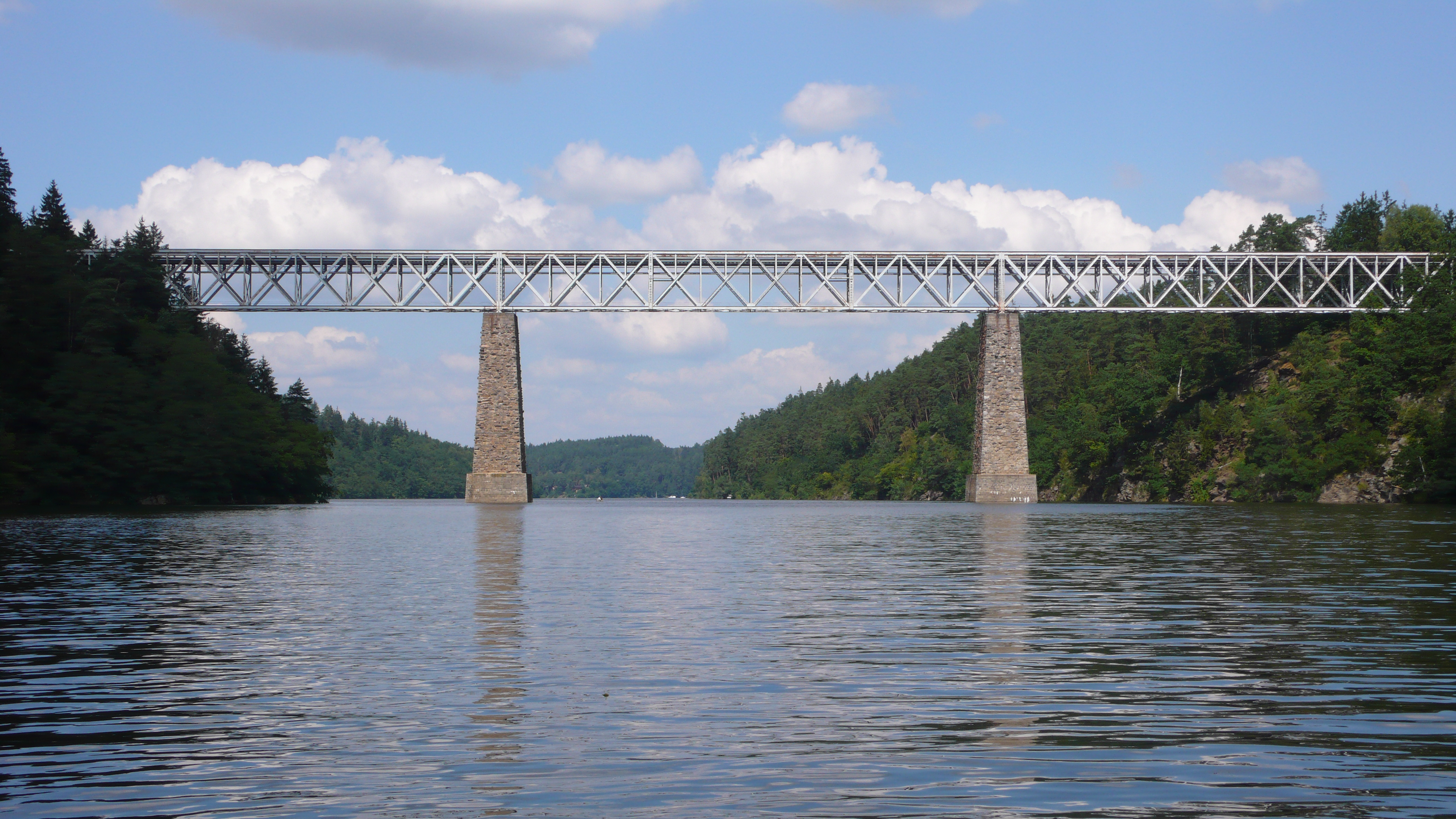 Railway bridge (Jetětice)